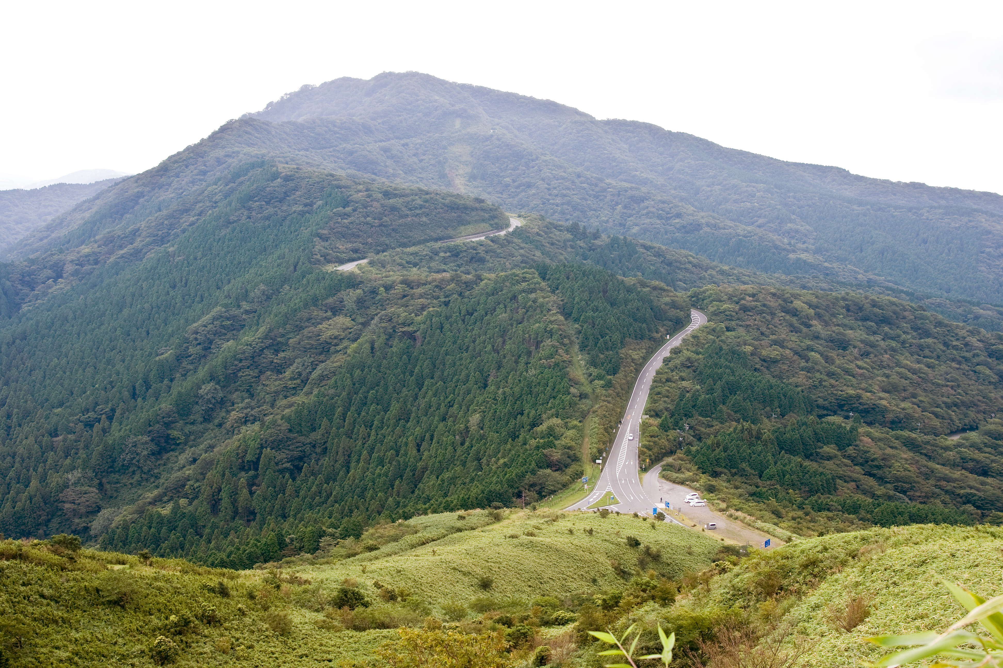 Ashinoko Skyline in Mt.Hakone, Kanagawa and Shizuoka Prefectures, Honshu, Japan.